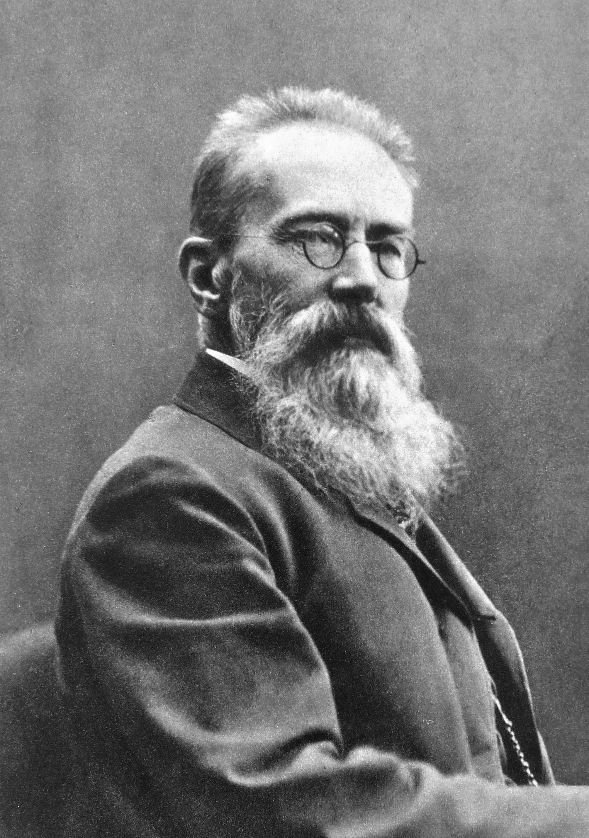 Riomsky-Korsakow; Photo Samour, Petersburg